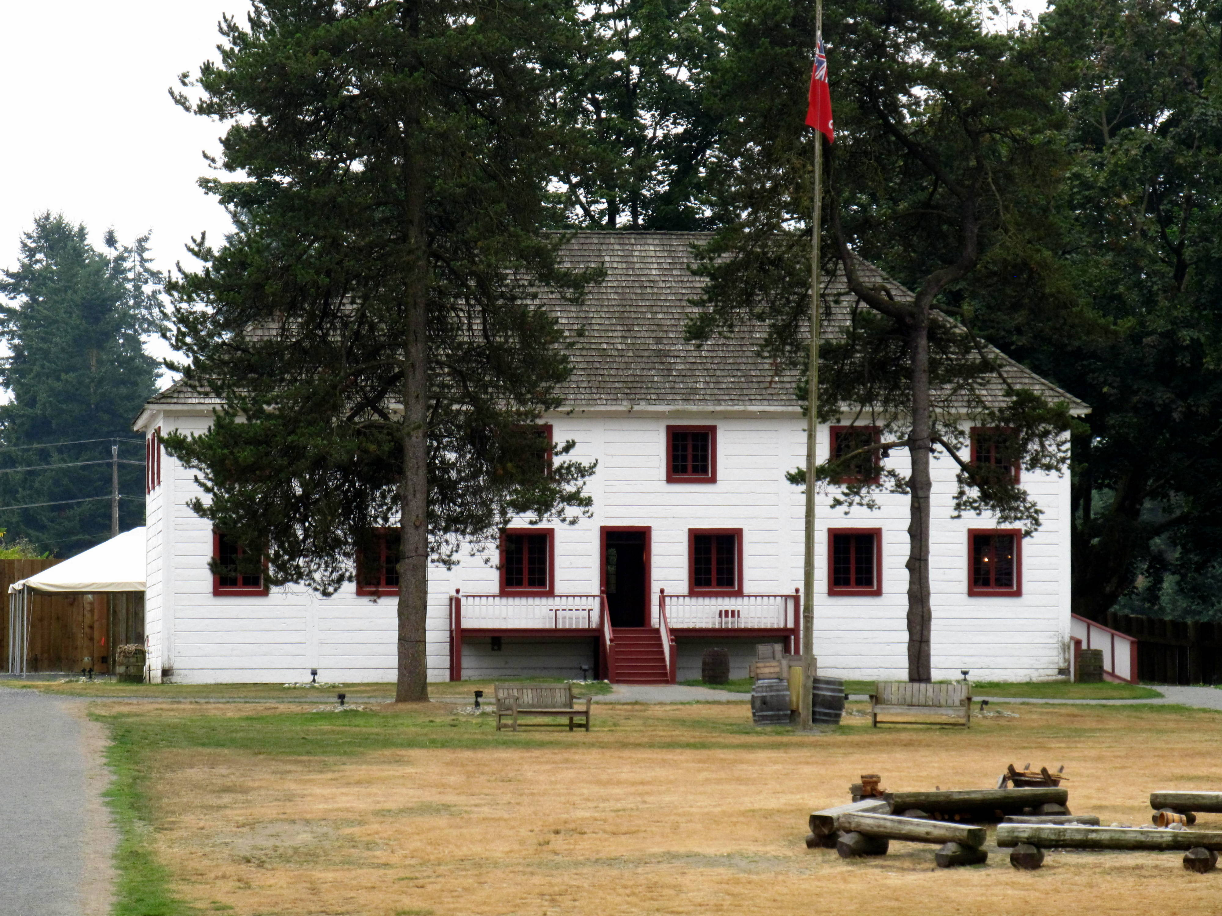 Big House